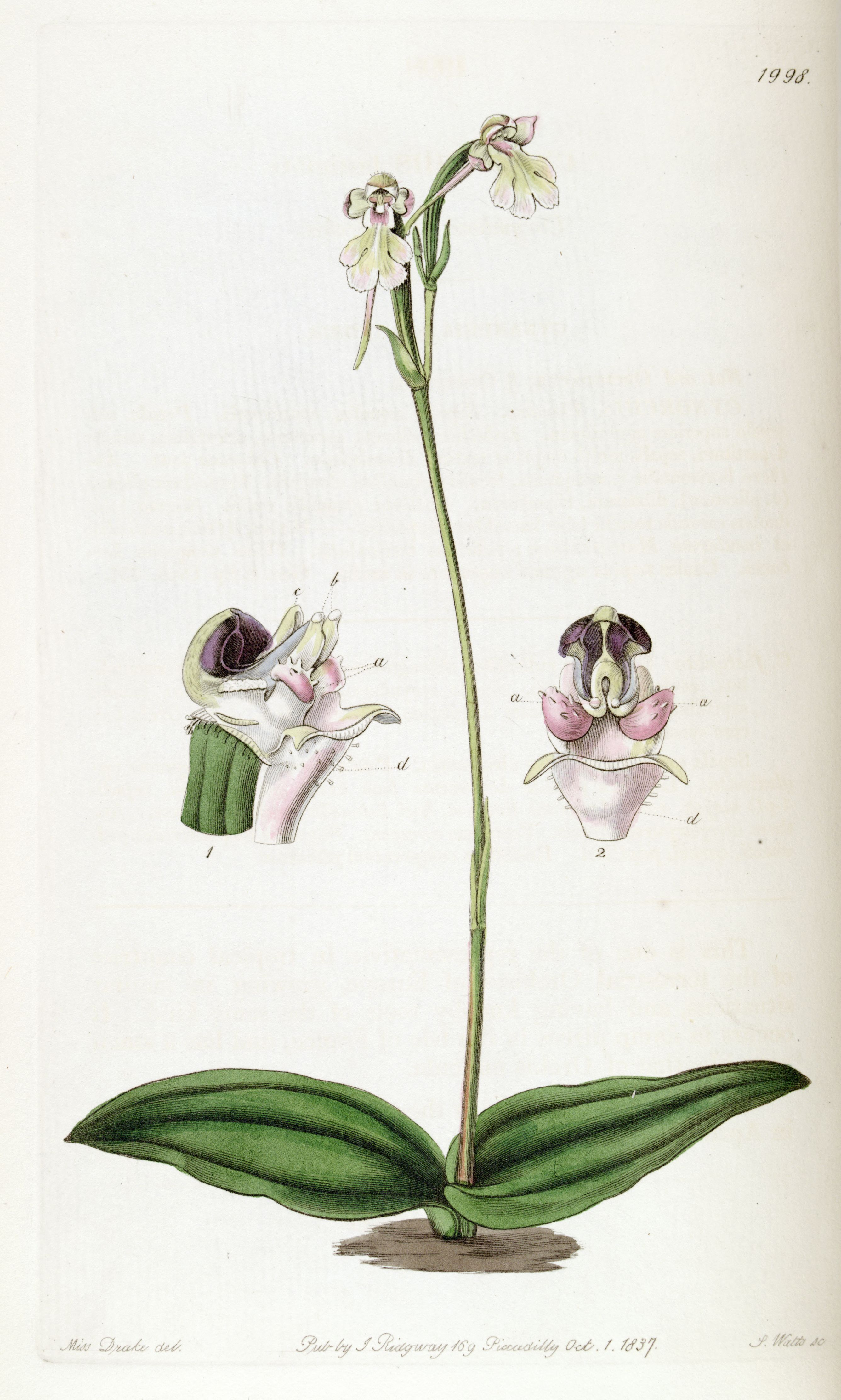 Cynorkis fastigiata (spelled as Cynorchis fastigiata)